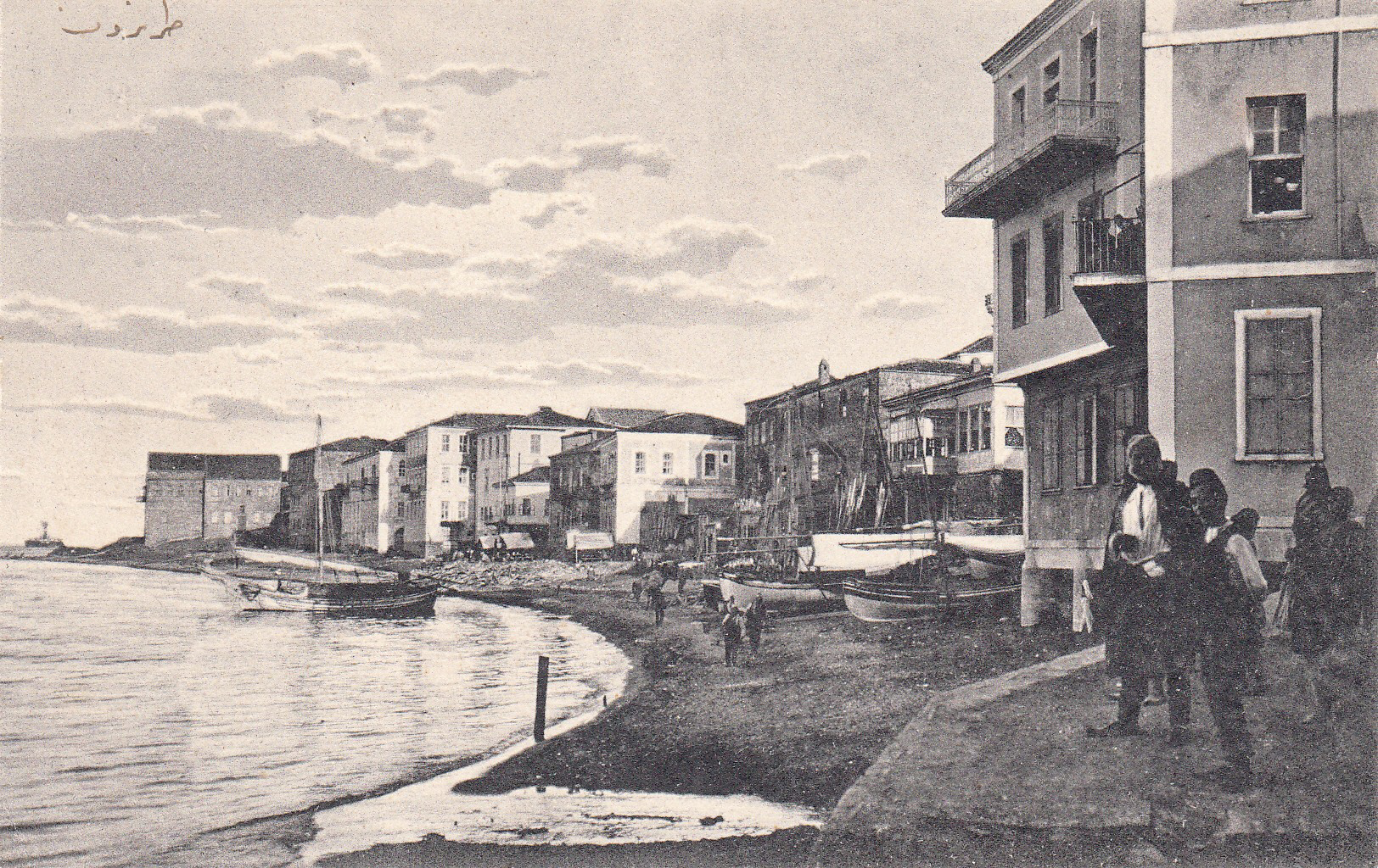 Postcard of Çömlekçi in Trebizond (Trabzon, Turkey).